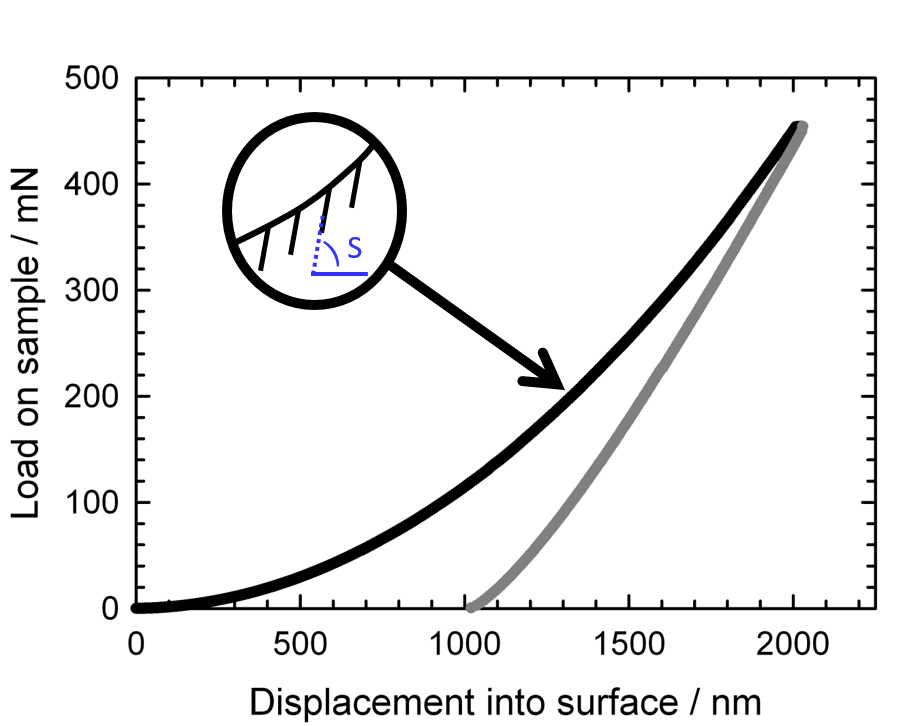 Schematics illustrating the effects of a CSM oscillation on the load-displacement curve